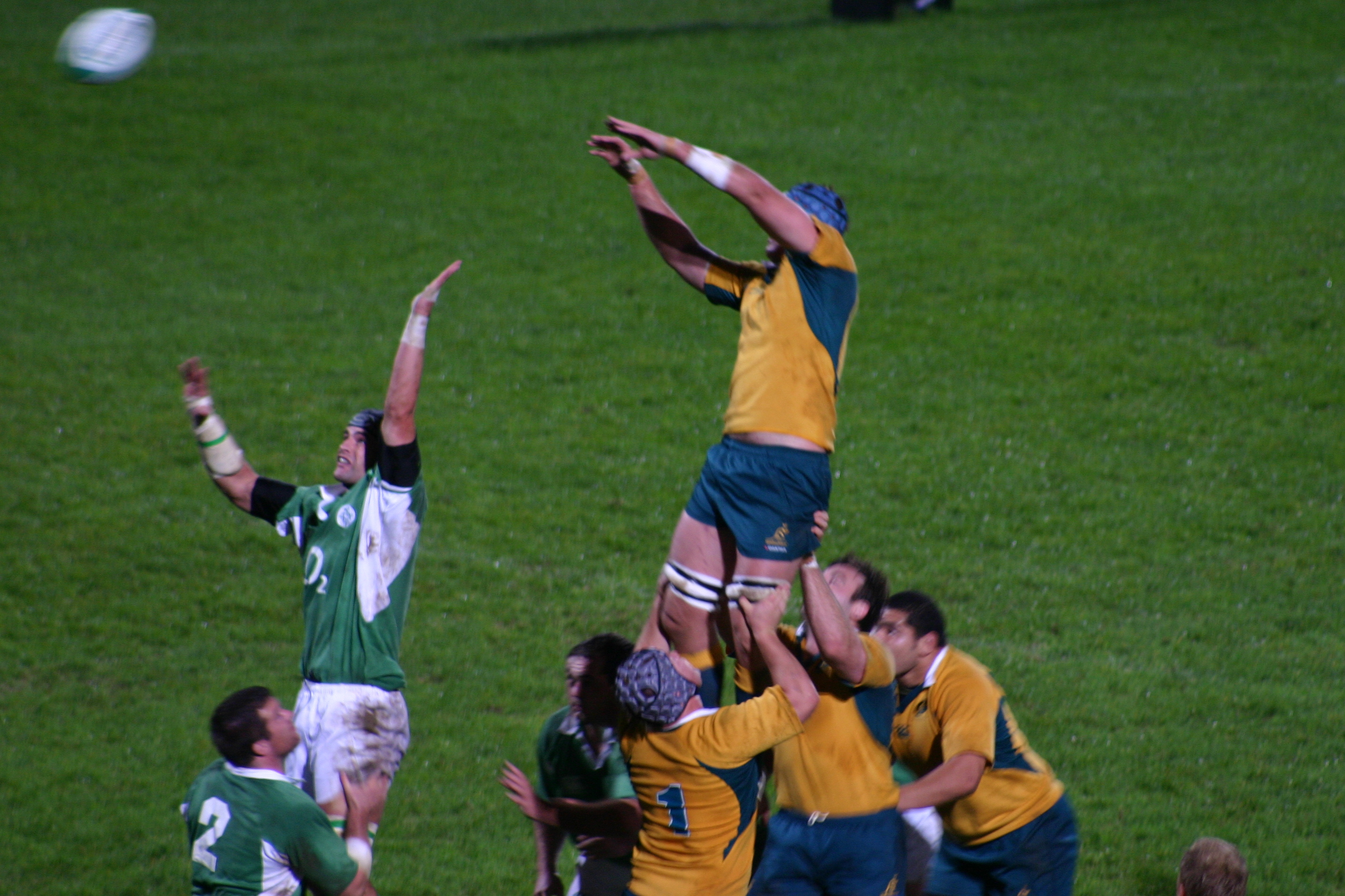 Team AustraliaGo Go Gadget Arms